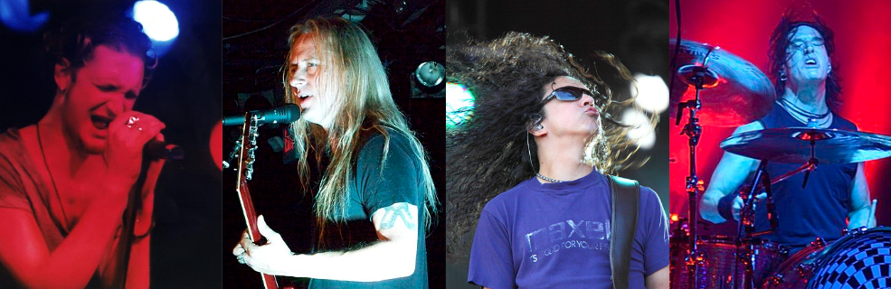 Alice in Chains collage: Layne Staley, Jerry Cantrell, Mike Inez, Sean Kinney